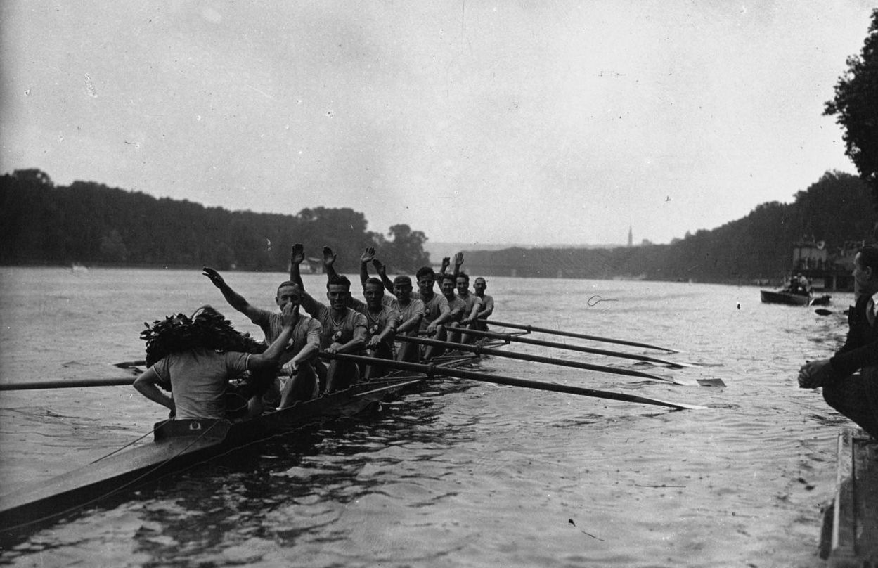 The winning eight at the 1931 European Rowing Championships; Seine at Suresnes.